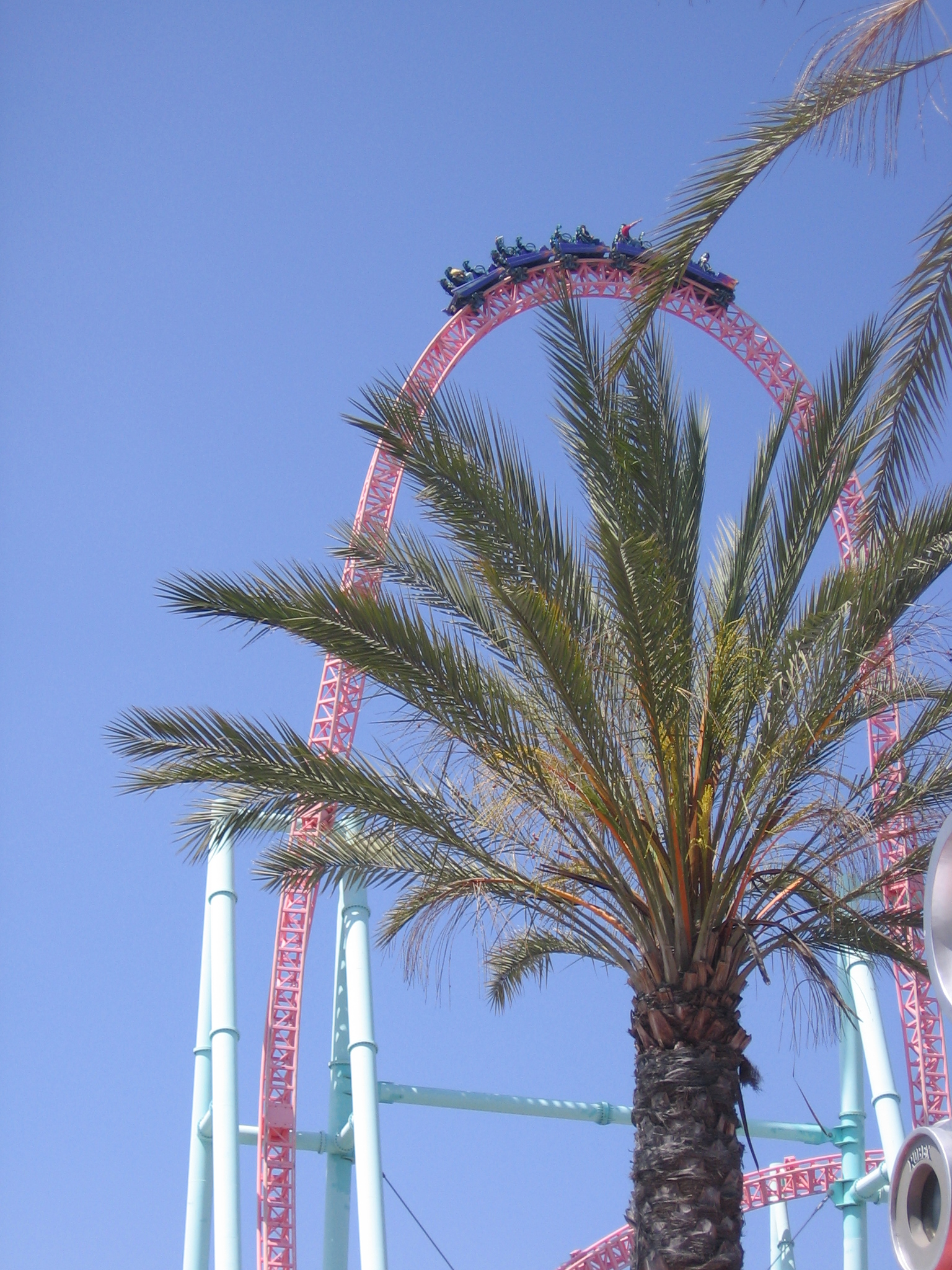 Taken by Bryan Bulmer in April 2008.